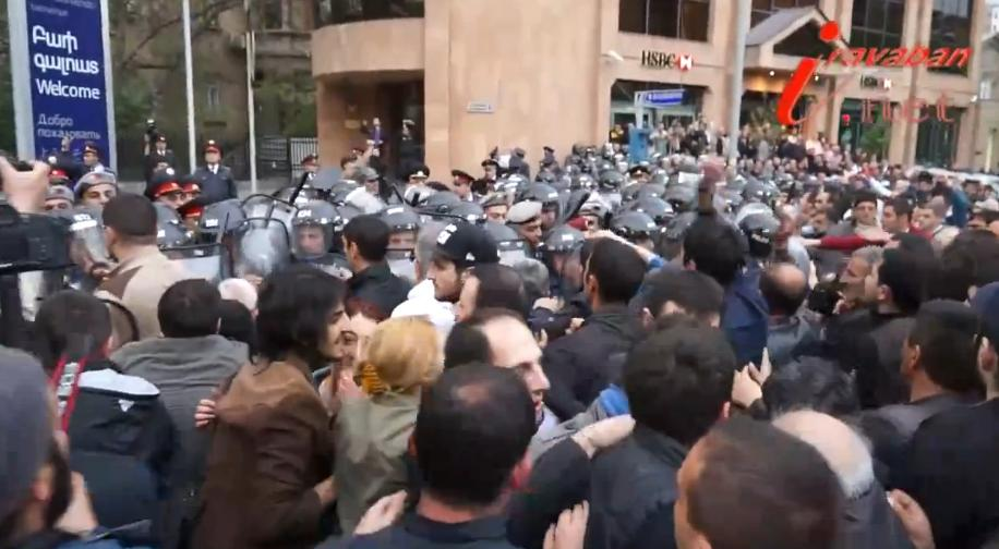 2013 Armenian protests on April 9, 2013 Baghramyan Avenue